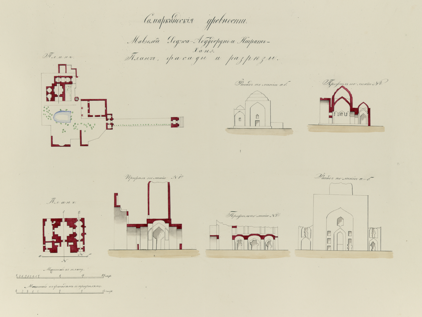 These plans, sections and elevations of two memorial complexes in Samarkand, (Uzbekistan) are from the archeological part of Turkestan Album. The six-volume photographic survey was produced in 1871-72 under the patronage of General Konstantin P. von Kaufman, the first governor-general (1867-82) of Turkestan, as the Russian Empire’s Central Asian territories were called. The album devotes special attention to Samarkand’s Islamic architectural heritage. The upper drawings include the plan of the Khodzha Abdu-Derun memorial complex dedicated to a revered 9th century Arab judge of the Abdi clan, with the word derun (inner) added to signify its location within Samarkand. The original domed mausoleum, dating from perhaps the 12th century, was expanded with a pilgrimage shrine in the 15th century. The complex also included a pool, a mosque, and an entrance portal. The lower drawings show the Ishrat-khan shrine, thought to have been built in 1464 at the command of Habib Sultan Begum (a wife of Abu Said) as a mausoleum for the women and children of the Timurid dynasty. This centralized, cruciform mausoleum with a high dome was flanked by two-storied ancillary structures that contained a mosque, a vestibule for washing (mion-sarai), and a passage to the burial crypt. By the time these drawings were made, much of the mausoleum’s upper structure had collapsed, but its monumental form was still impressive. Architectural drawings; Islamic architecture; Projections; Sepulchral monuments; Tombs